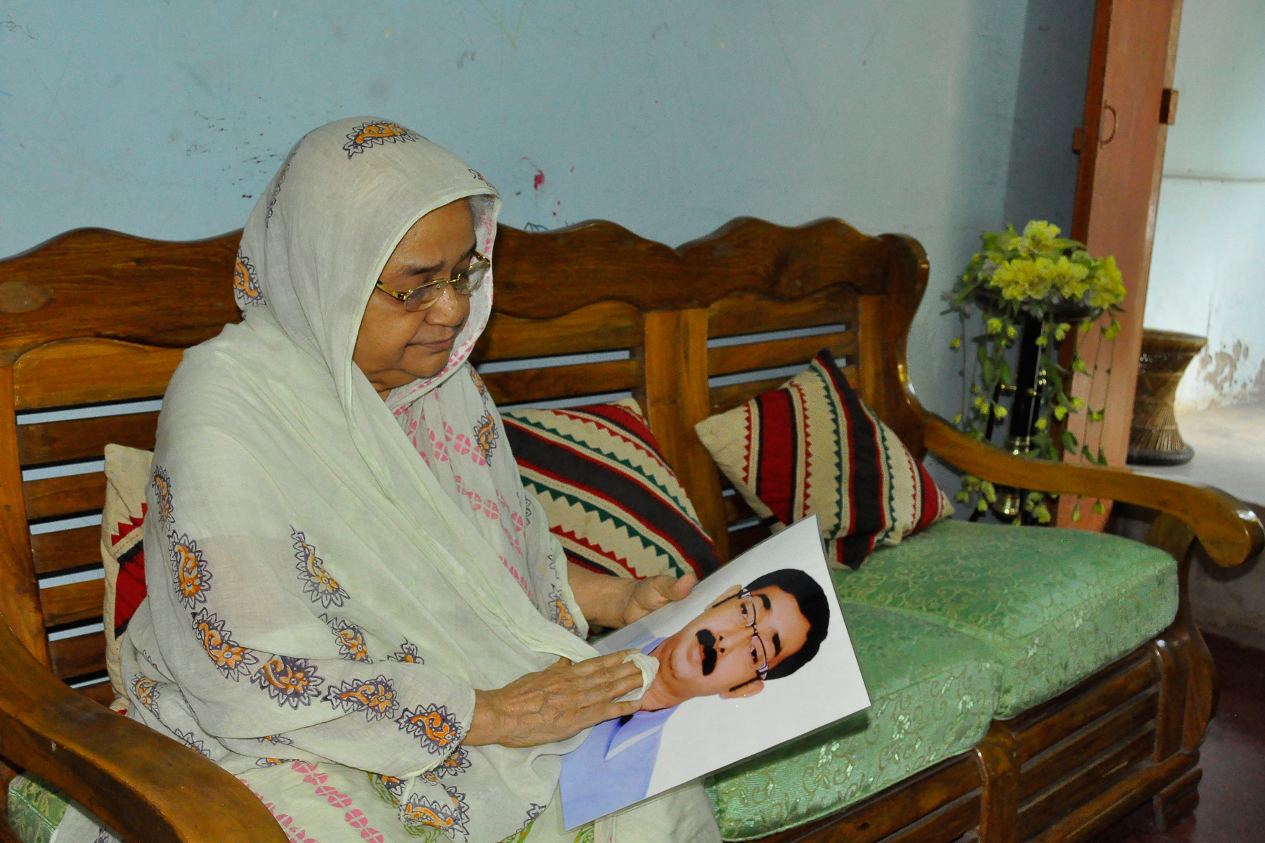 A mother with a photo of her son who became a victim of forced disappearance